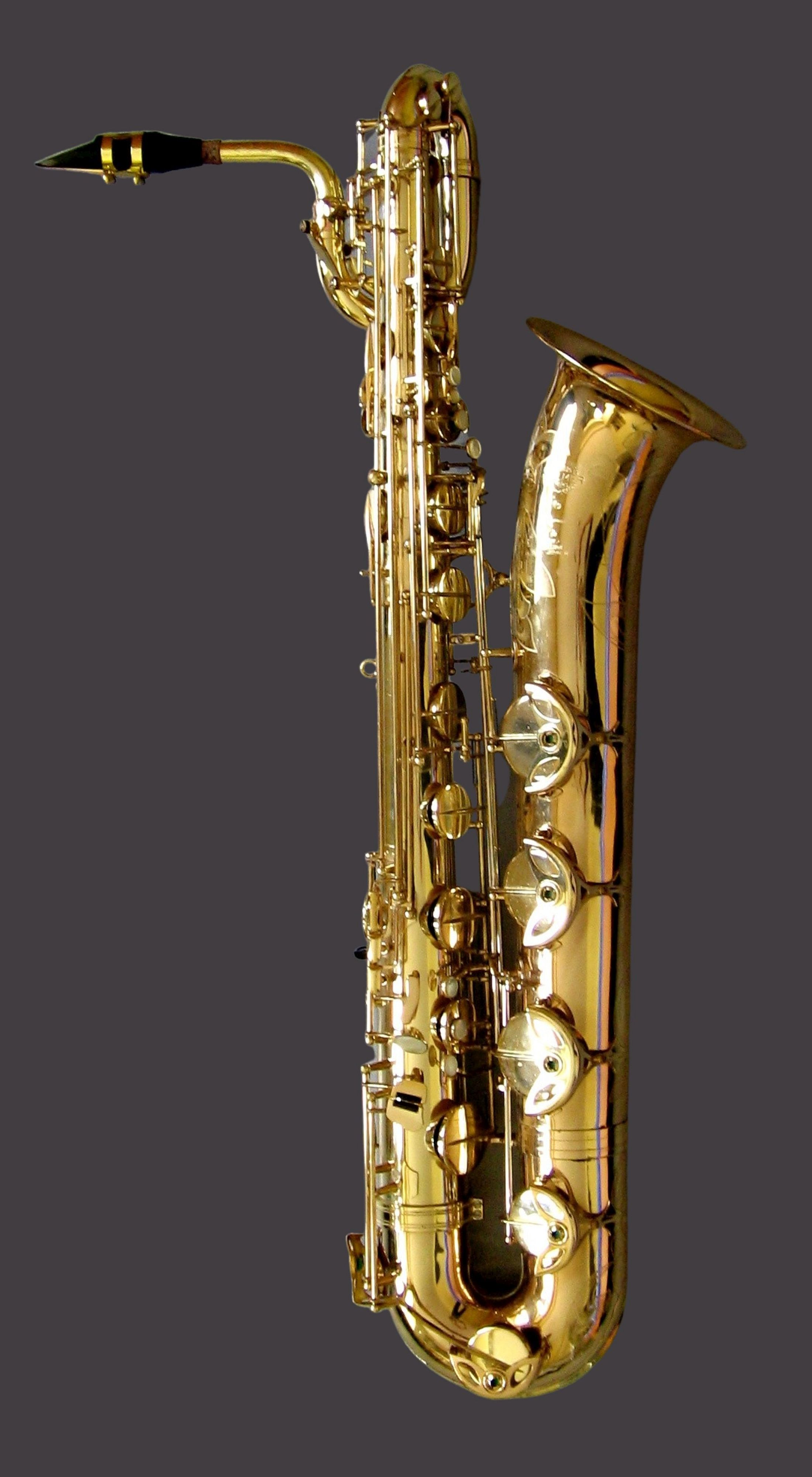 Selmer baritone saxophone